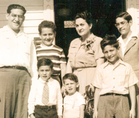 Fred Levin with Parents and Brothers in 1950s